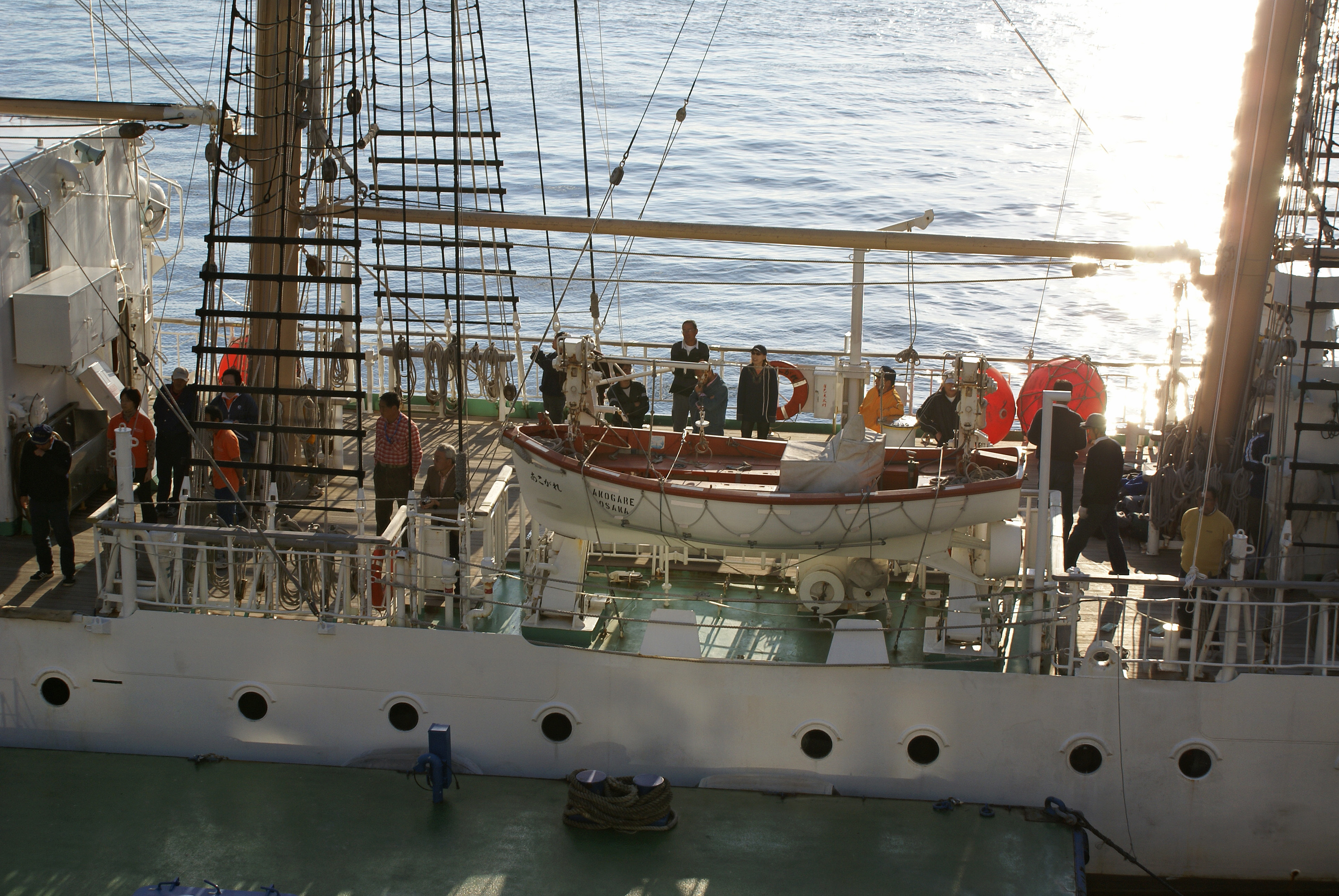 AKOGARE (Ship) at Asia and The Pacific Ocean Trade Center in Osaka, Japan